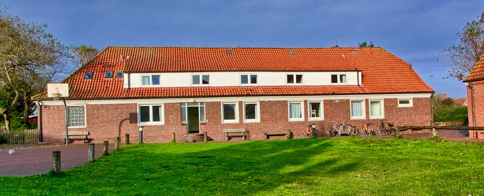 Easterly view: 'Arche' (= Ark) of progressive Schule am Meer (= School by the Sea) on Juist Island, North Sea. Built in 1927 the building is now part of the island's youth hostel. For the former school it was part of their accomodation facilities, occupied by the eldest pupils who lived in single rooms, a single female teacher and another teacher's family: Dr. Paul Reiner (1886–1932), his wife Anni who was also a teacher and their four daughters.